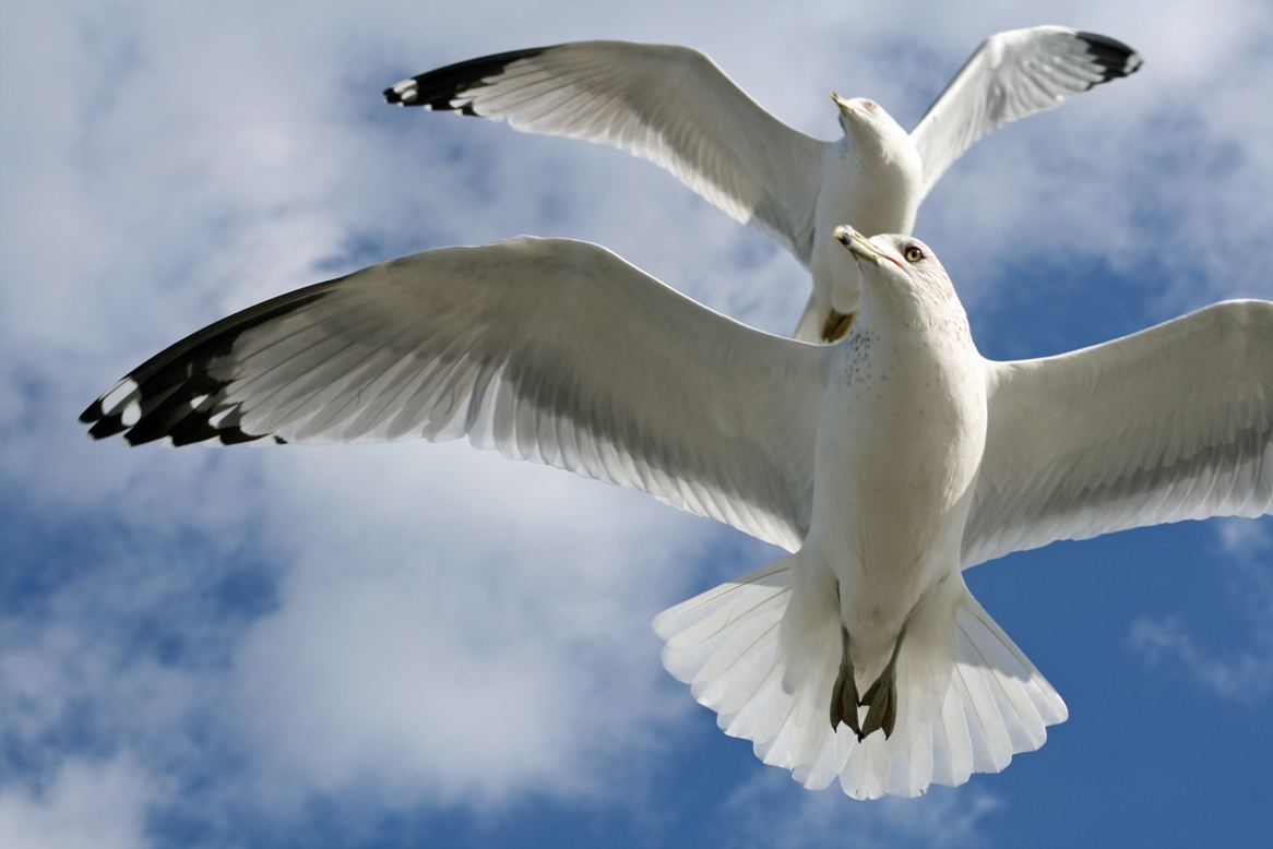 Ring-billed Gulls Larus delawarensis in flight at Chesapeake Bay, Annapolis, Maryland.